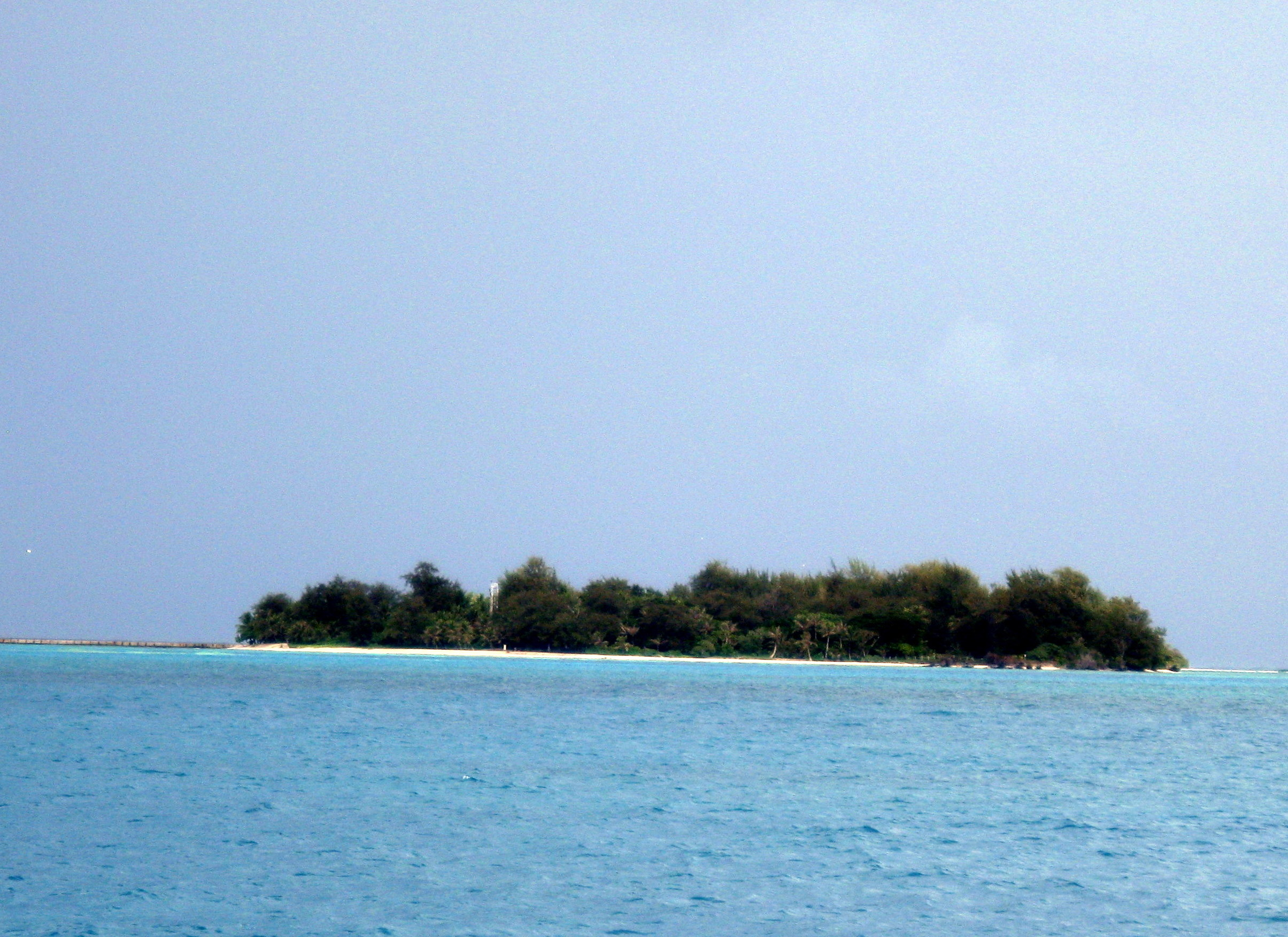 Mañagaha is a small islet which lies off the west coast of Saipan